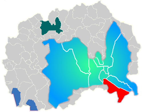 Map of Kisela Voda municipality.